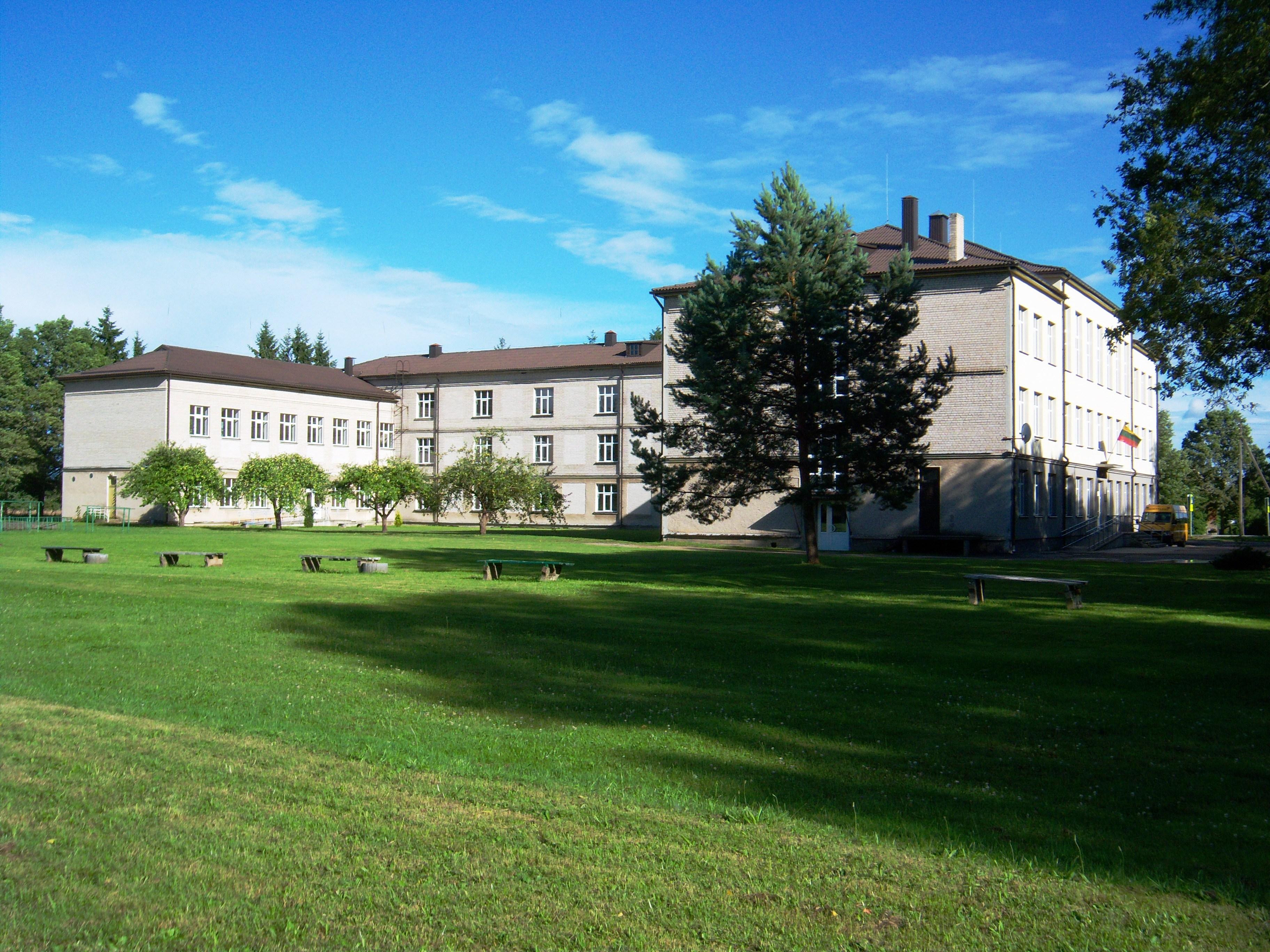 Troškūnai Secondary School, Anykščiai District, Lithuania